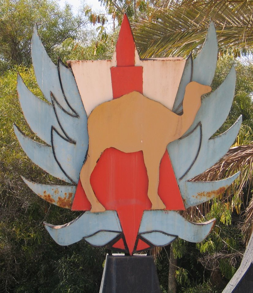 Description: Refidim airbase symbol at Muzeyon Heyl ha-Avir, Hatzerim, Israel. 2006. Source: Photo by me, User:Bukvoed.